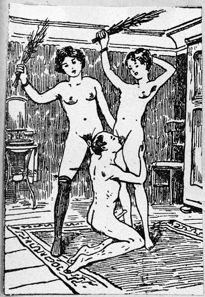 An anonymous pornographical illustration (black-and-white drawing) from a 1922 edition of the Austrian novel Josephine Mutzenbacher or The Story of a Viennese Whore, as Told by Herself (first published in 1906). (The presumed writer is Felix Salten.)